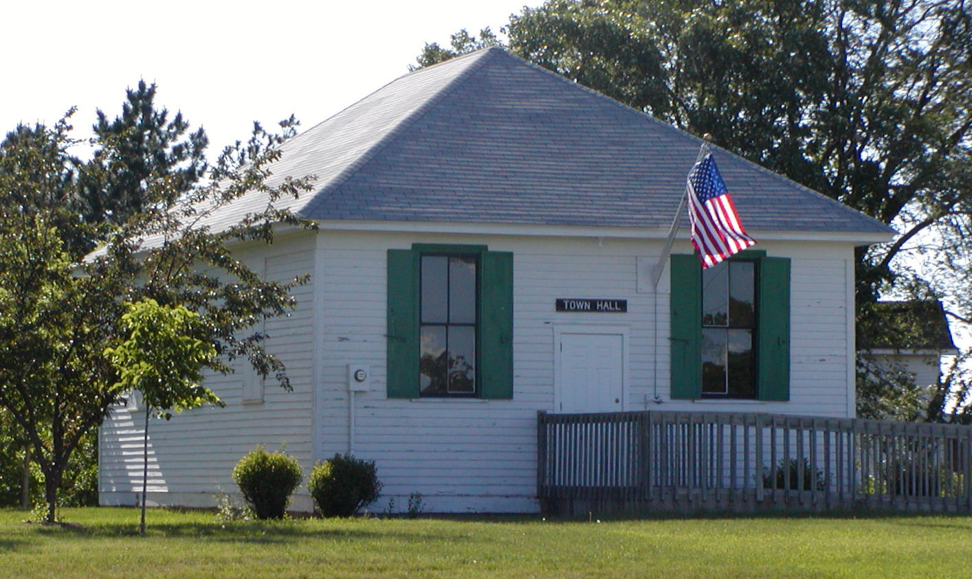 by William Wesen - released to the public domain